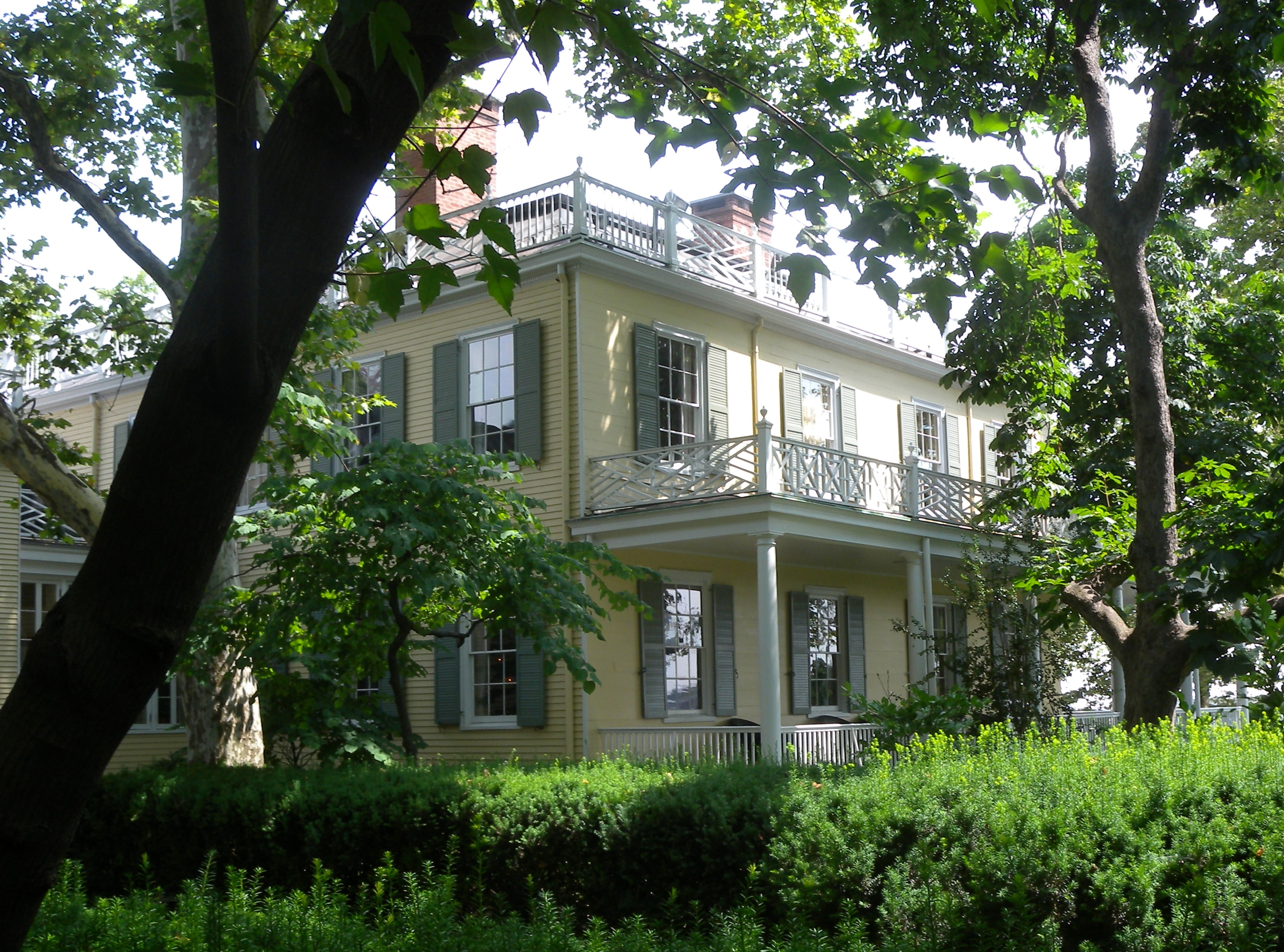 Looking north on a summer morning, from a POV slightly southwest of File:Gracie Mansion snow jeh.jpg.